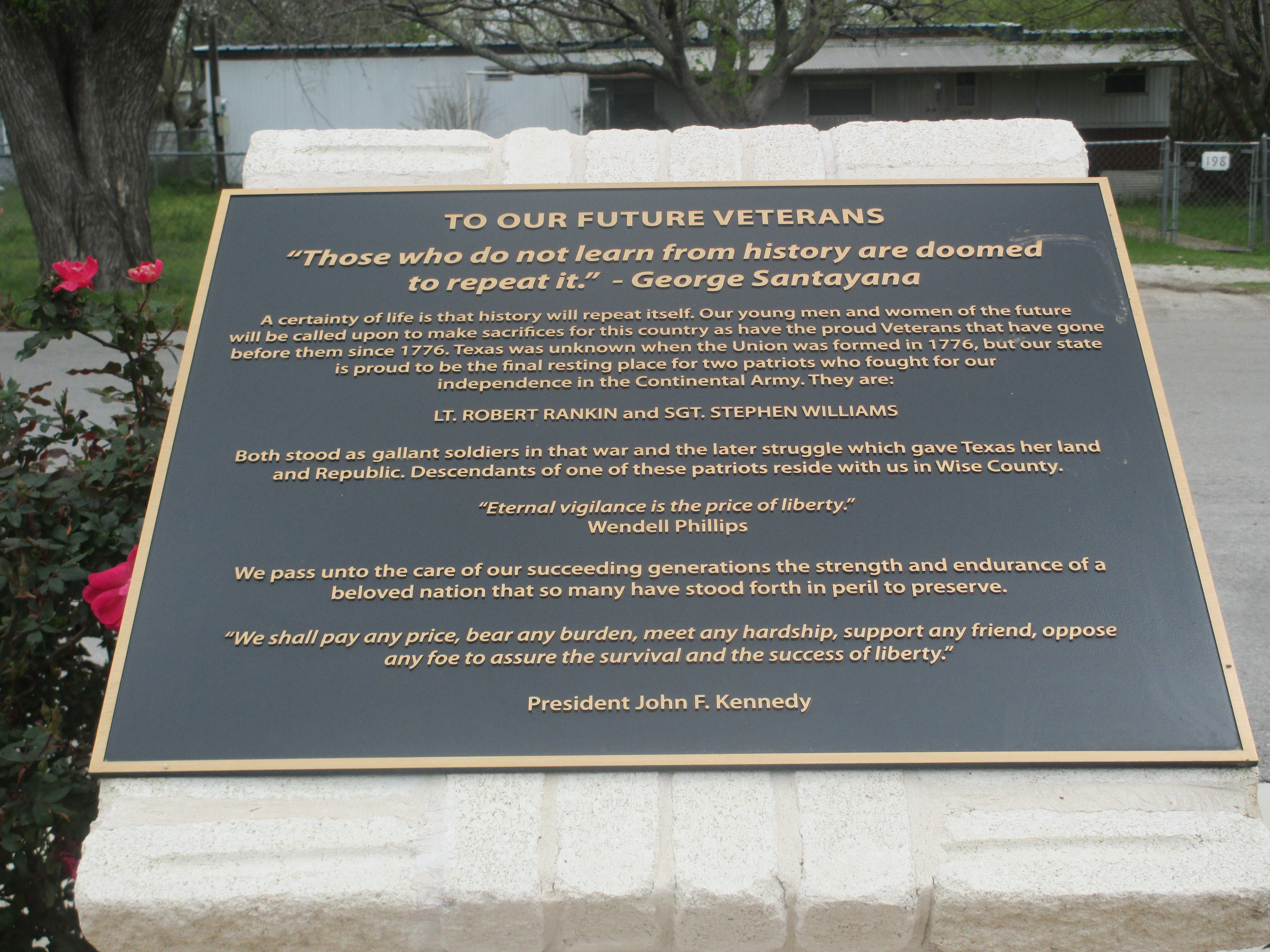 I took photo of plaque of military quotations at Veterans Memorial Park in Rhome, TX, with Canon camera, April 7, 2013. Billy Hathorn (talk) 20:30, 12 April 2013 (UTC)